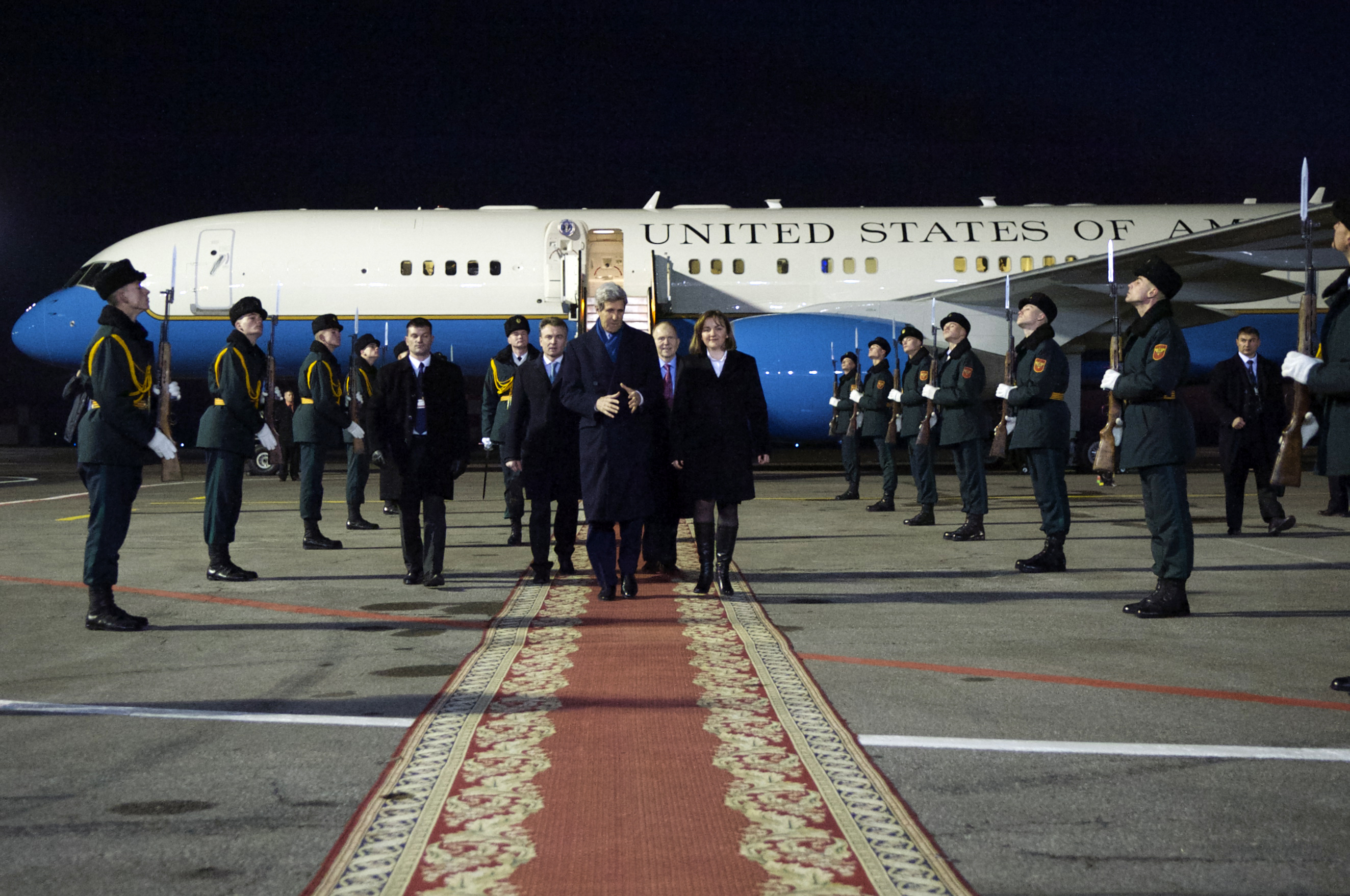 Moldovan Deputy Prime Minister Natalia Gherman, right, escorts U.S. Secretary of State John Kerry as he arrives in Chisinau, Moldova, on December 4, 2013. [State Department photo/ Public Domain]